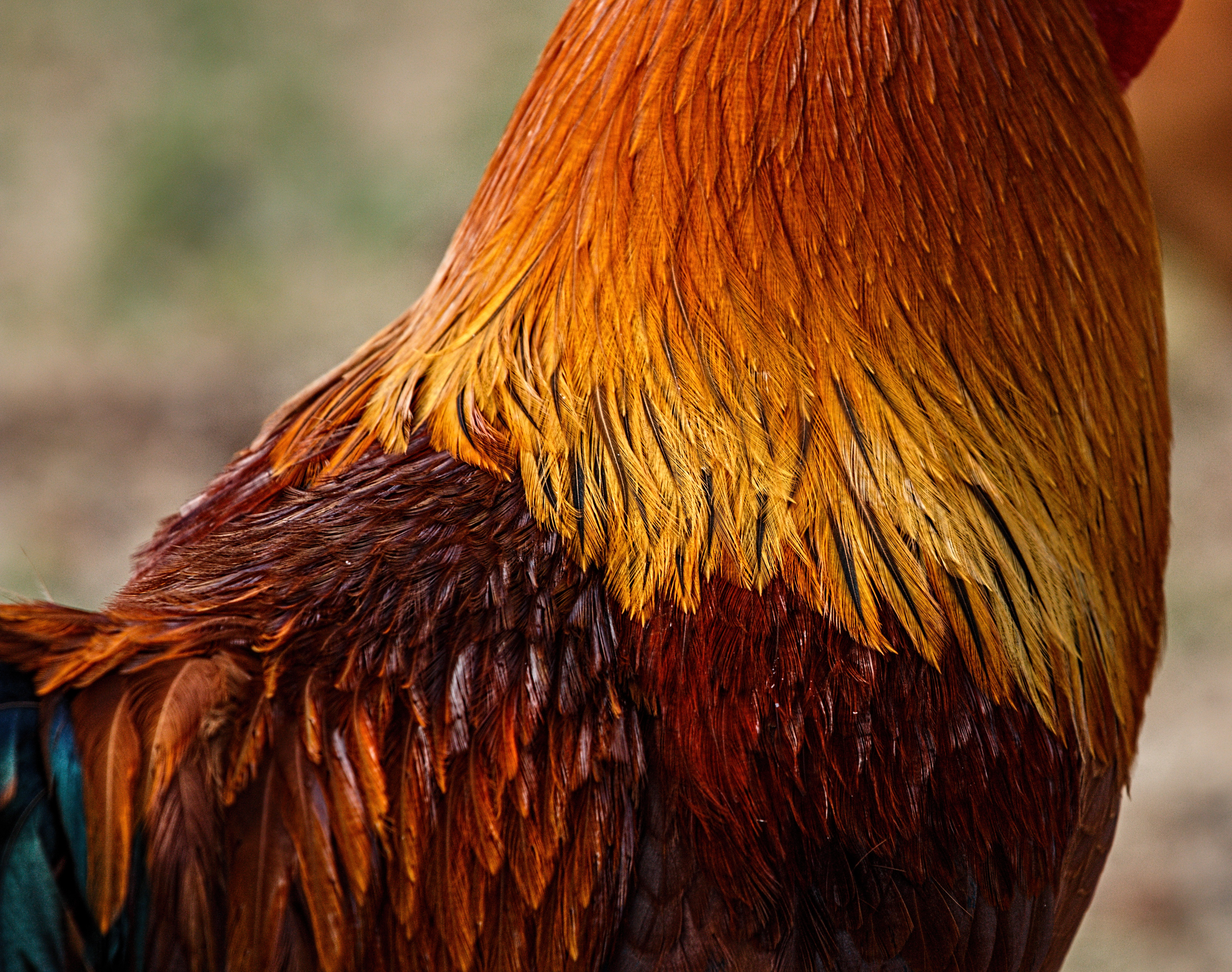 Plumage of a domestic rooster. Feathers in the neck area, known as hackles.